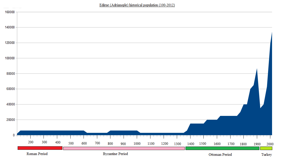 Graph of the historical population of Edirne (Adrianople) Turkey. During the years 100-2012. Sources: Cities of the Classical World, Colin McEvedy, [1] Encyclopedia of the Ottoman Empire, Gábor Ágoston, Bruce Alan Masters, page 197, 2009.